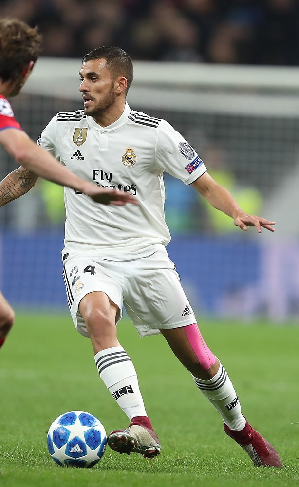 Dani Ceballos